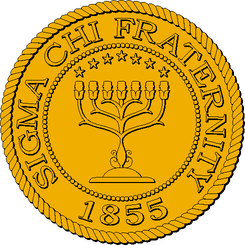 Visual representation of the Seal of Sigma Chi.